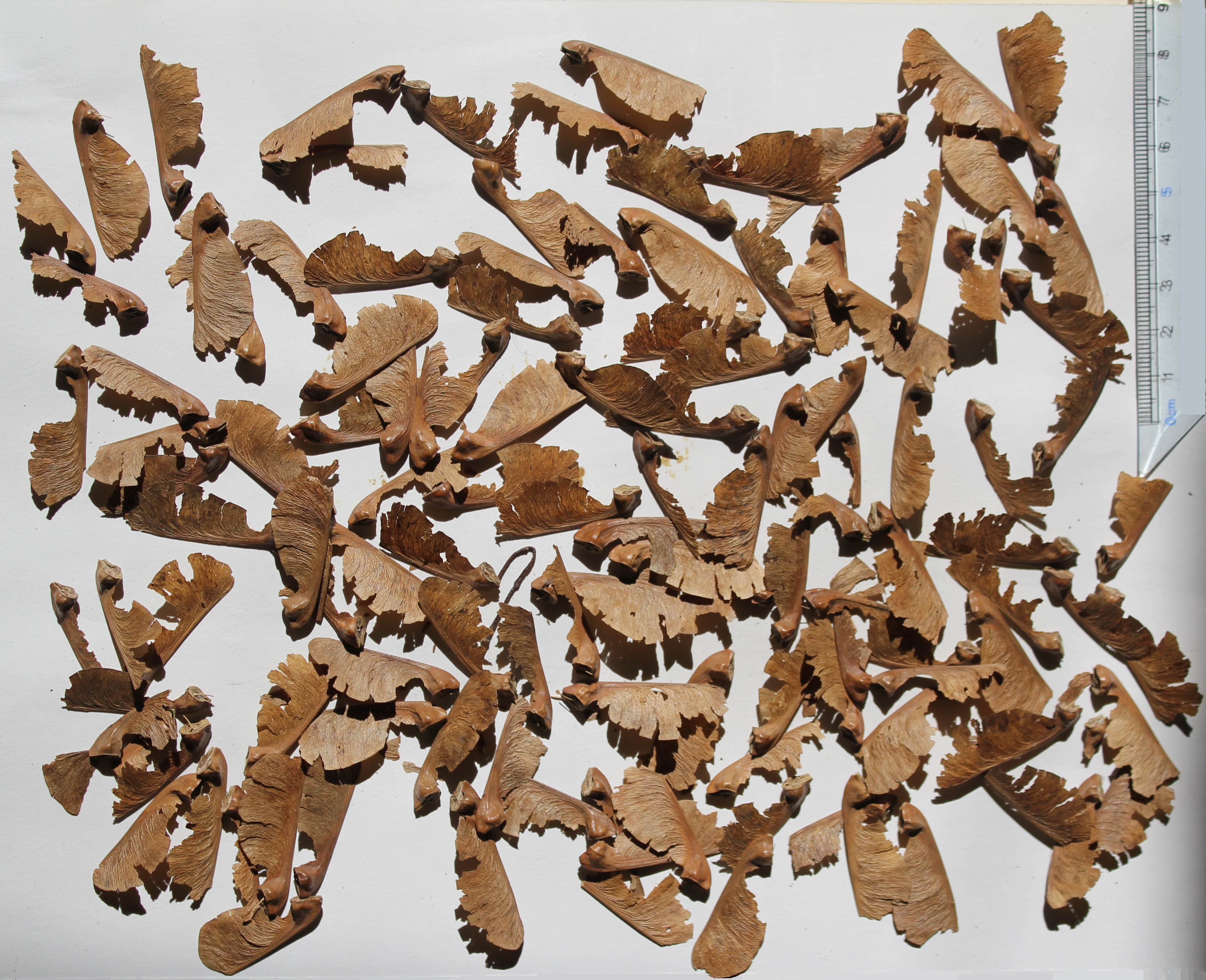 Acer oblongum seeds.